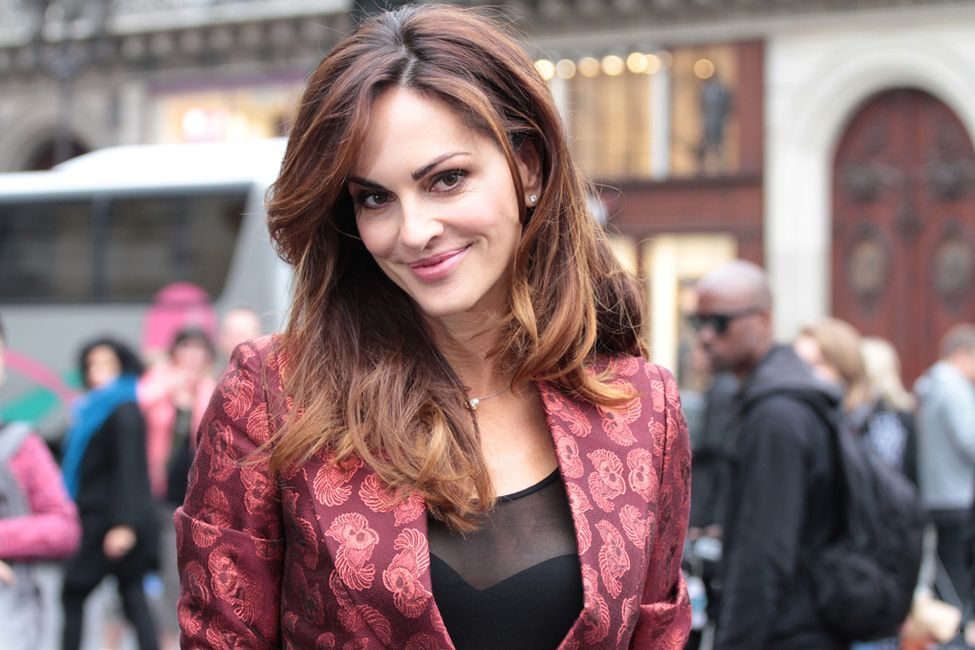 Picture of Tasha de Vasconcelos